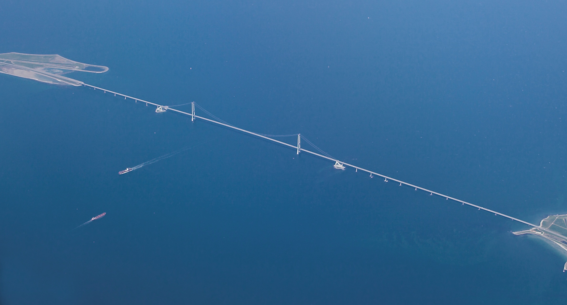 The Estern Bridge of Storebæltsbroen.